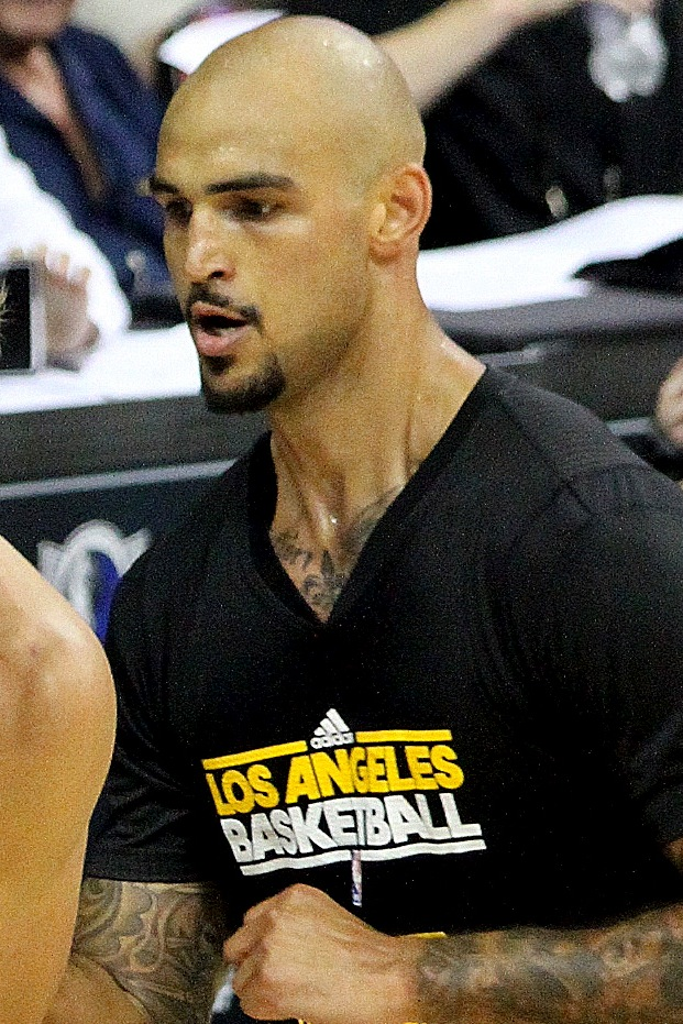 Robert Sacre playing for the Lakers in the 2013 Las Vegas Summer League